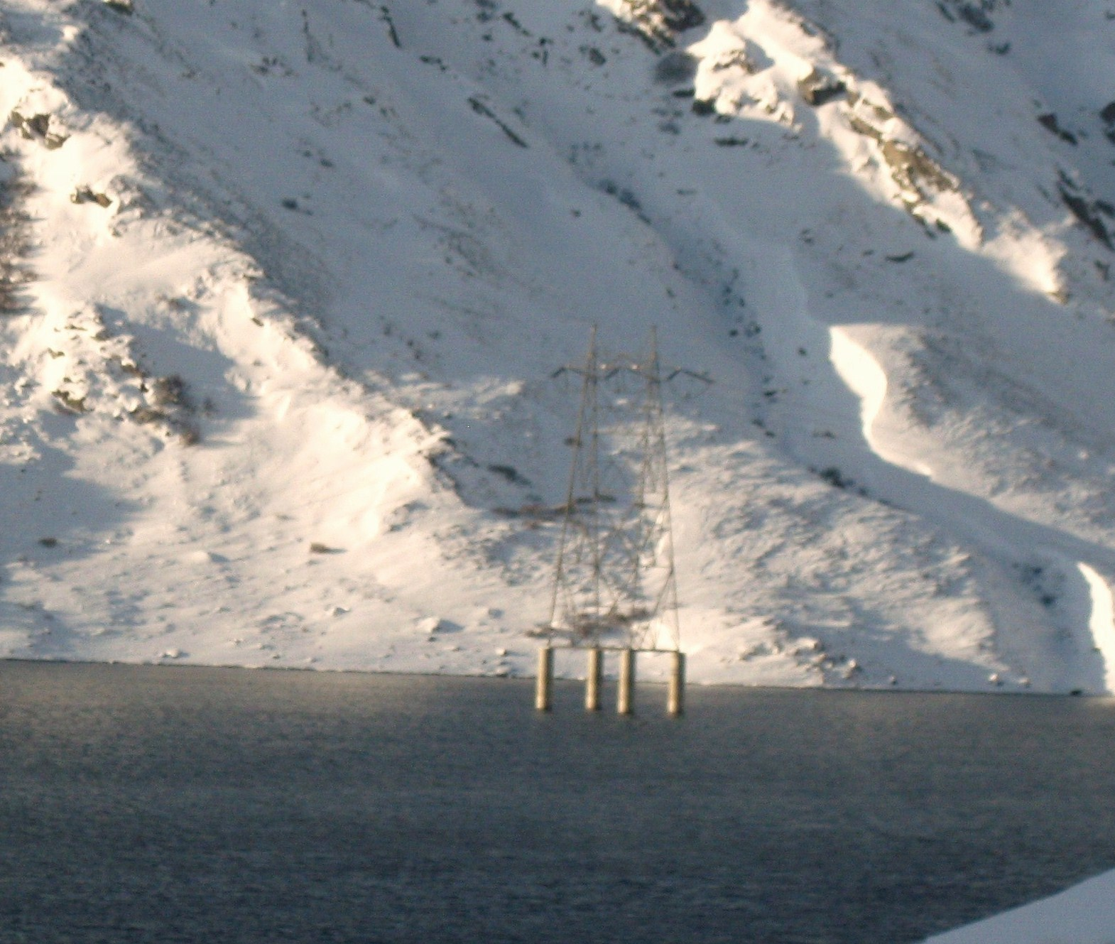 The pylon anchored in the lake of Santa Maria (CH)